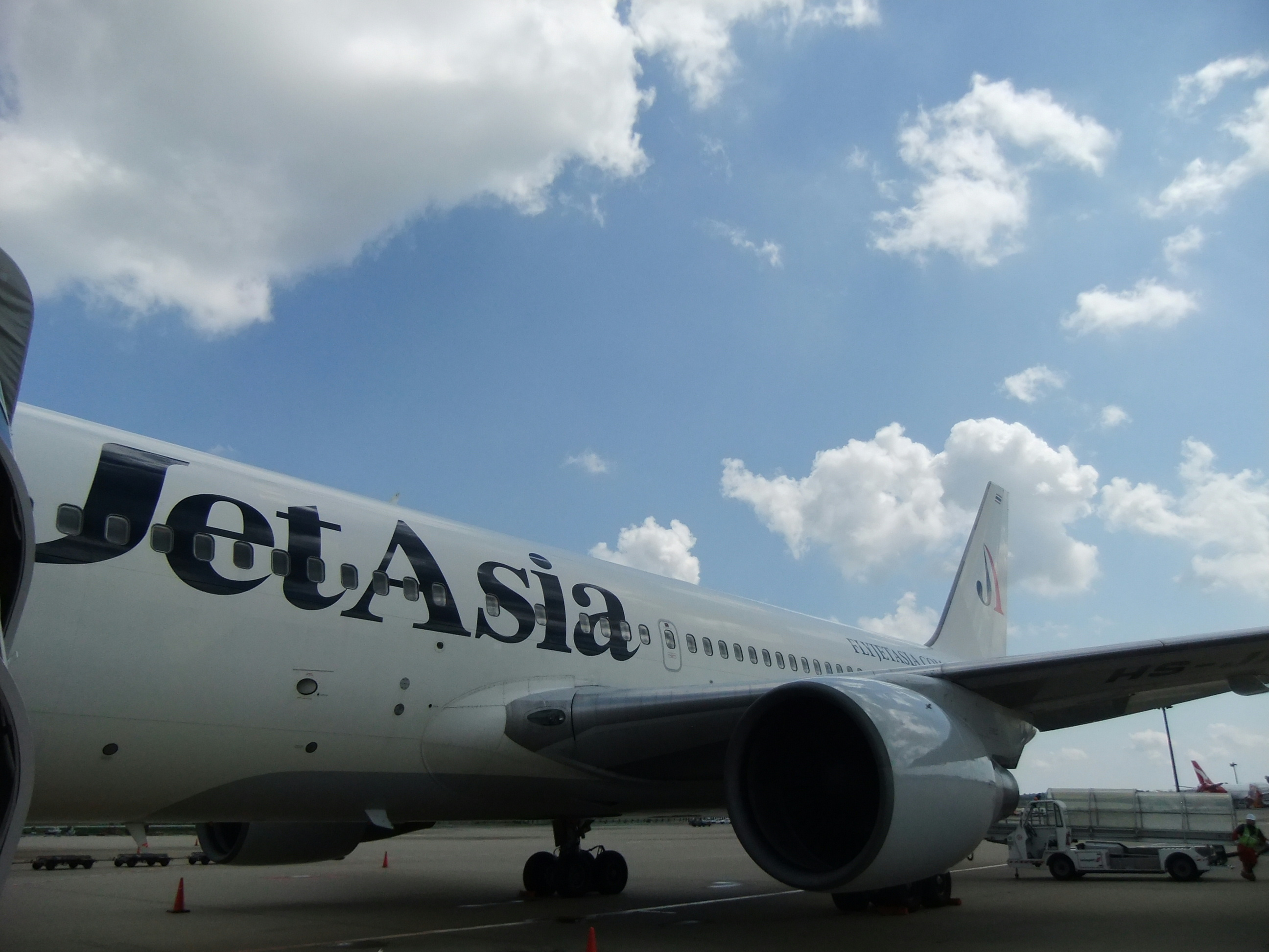 Jet Asia Airways, Airlines of Thailand